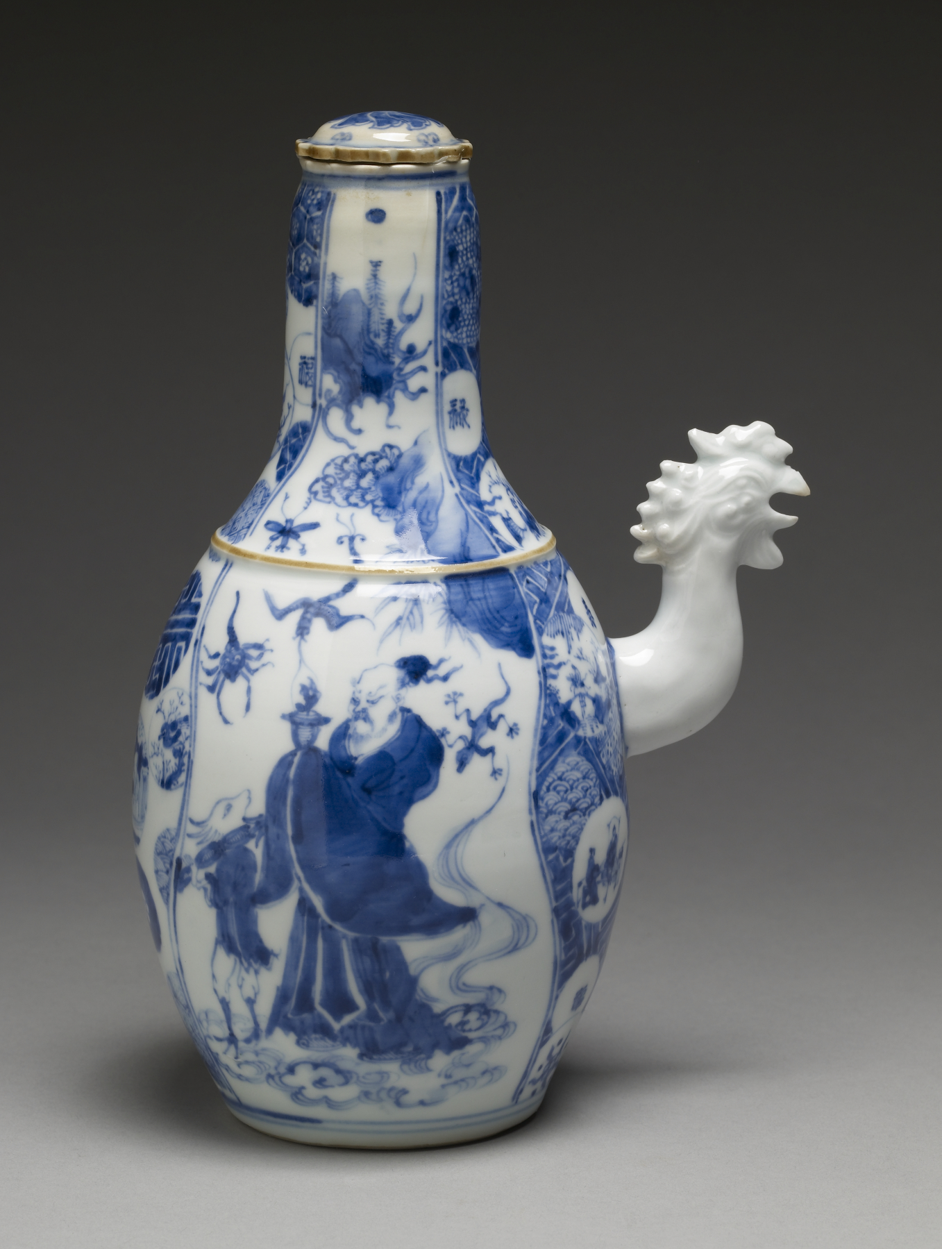 This is an example of Kyoto ware.